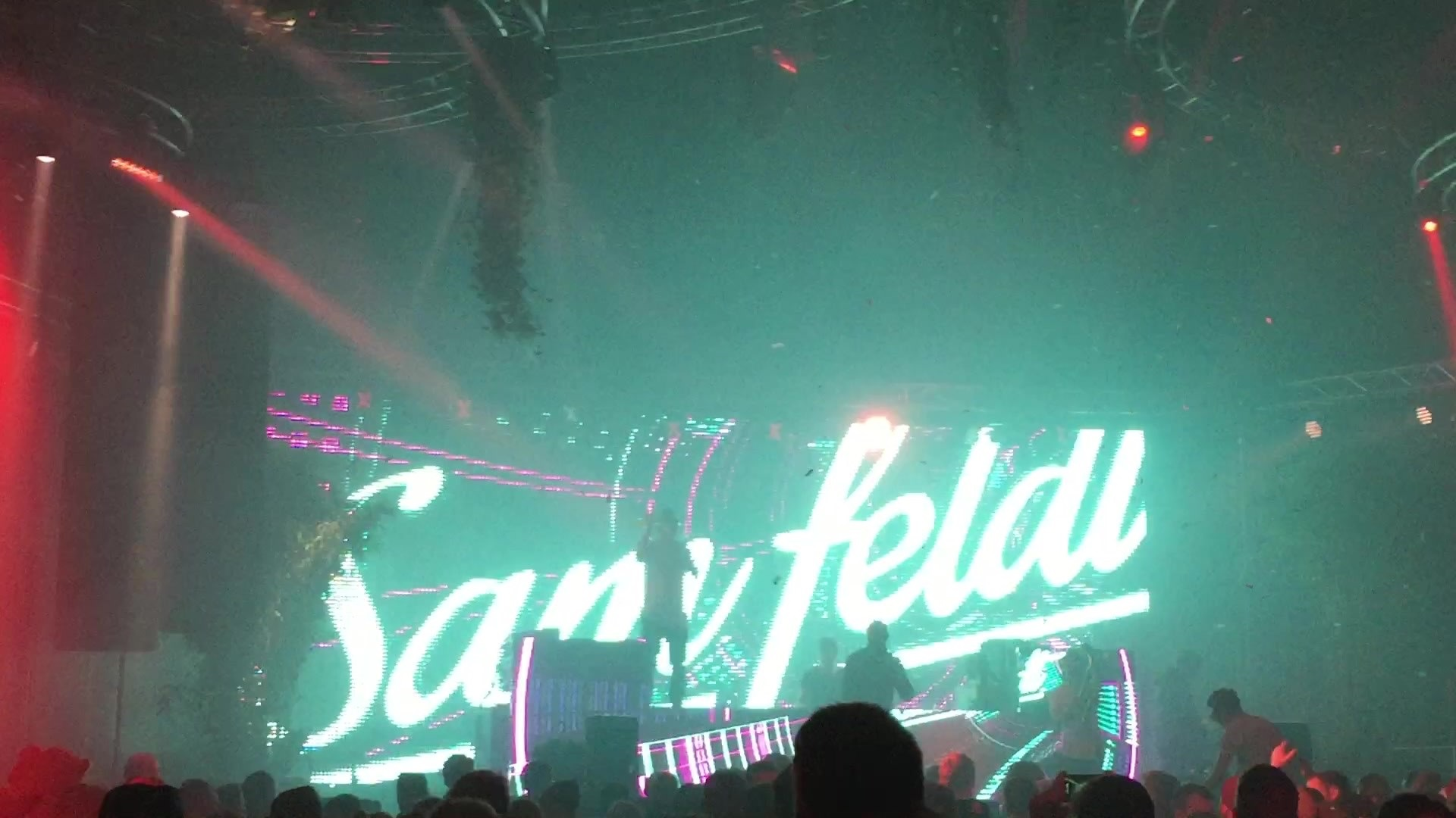 Sam Feldt playing live at Airbeat One Festival 2016 in Germany